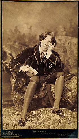 Portrait of Oscar Wilde (1854-1900) in New York, 1882. Picture taken by Napoleon Sarony (1821-1896), # 18.